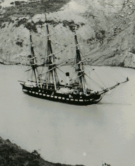 USS Constitution passing through Gaillard Cut on her Atlantic to Pacific transit of the Panama Canal, 27 December 1932. Alongside is the Canal tug Gorgona.